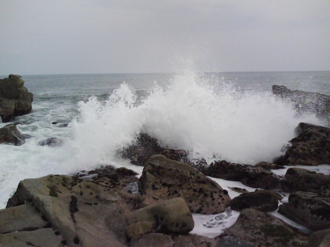 This photo presents sea waching in Cape Inbosaki.